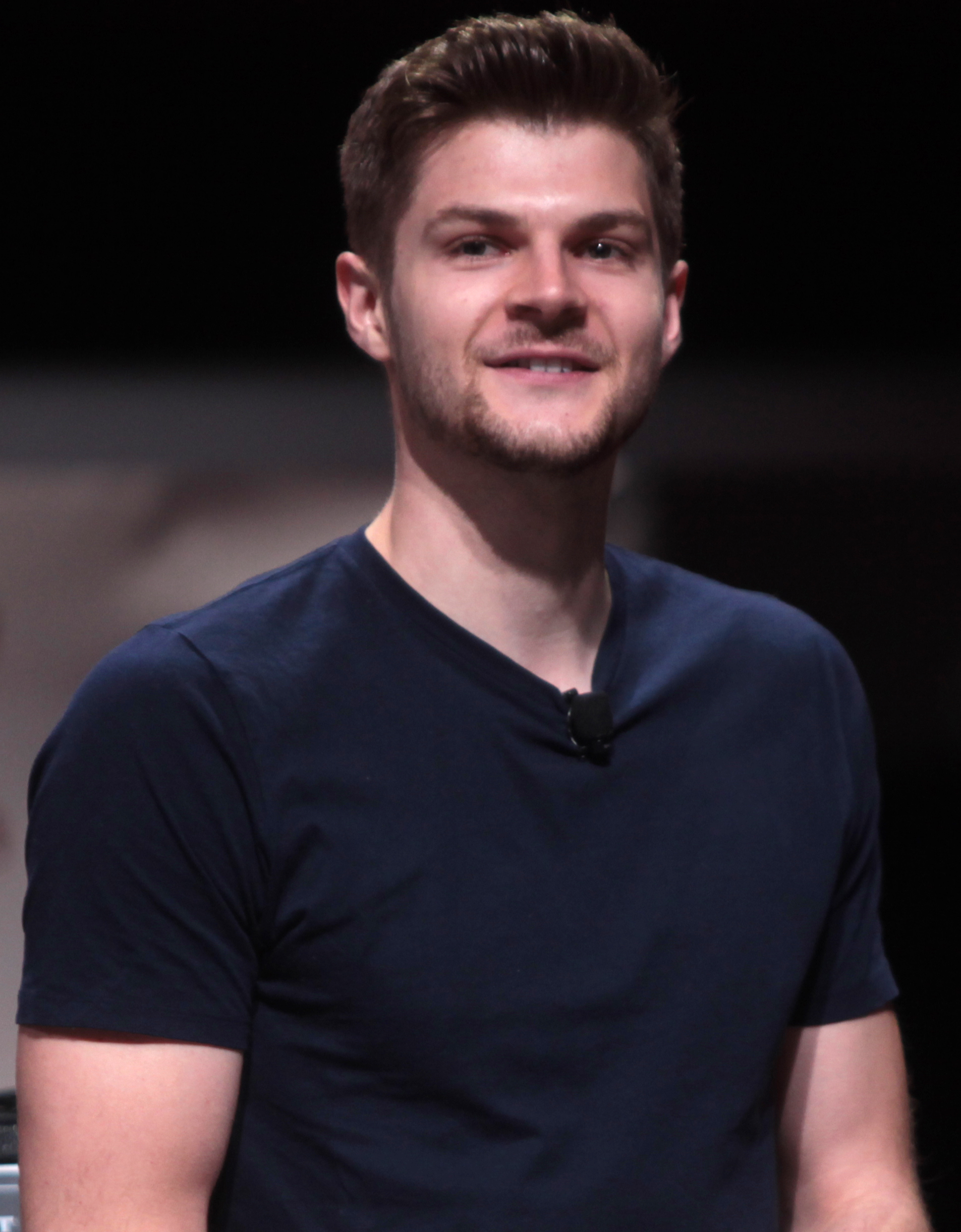 Jim Chapman speaking at the 2014 VidCon at the Anaheim Convention Center in Anaheim, California.